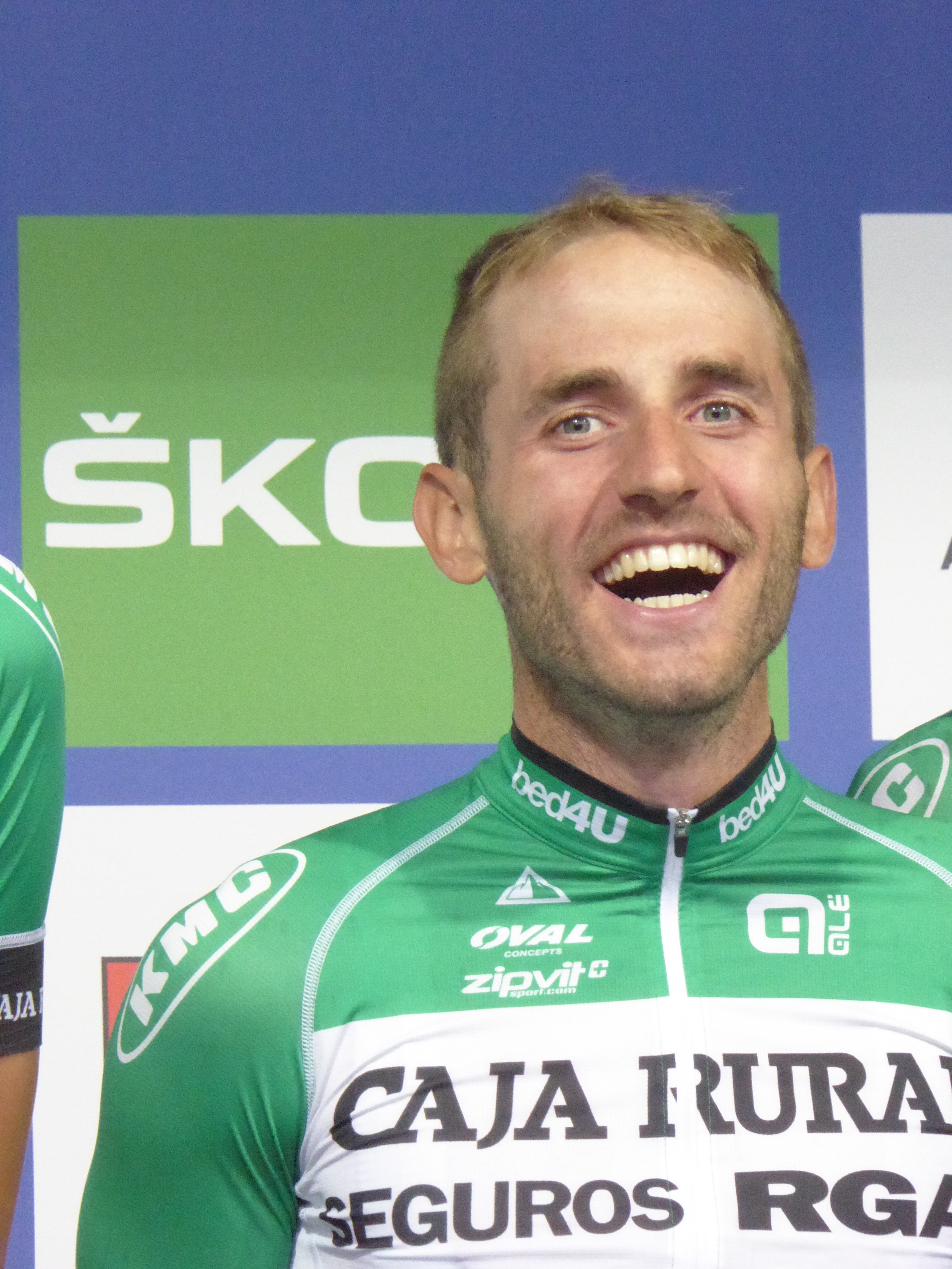 Carlos Barbero (Caja Rural-Seguros RGA), pictured at the 2016 Tour of Britain team presentation in Glasgow on 3 September 2016.